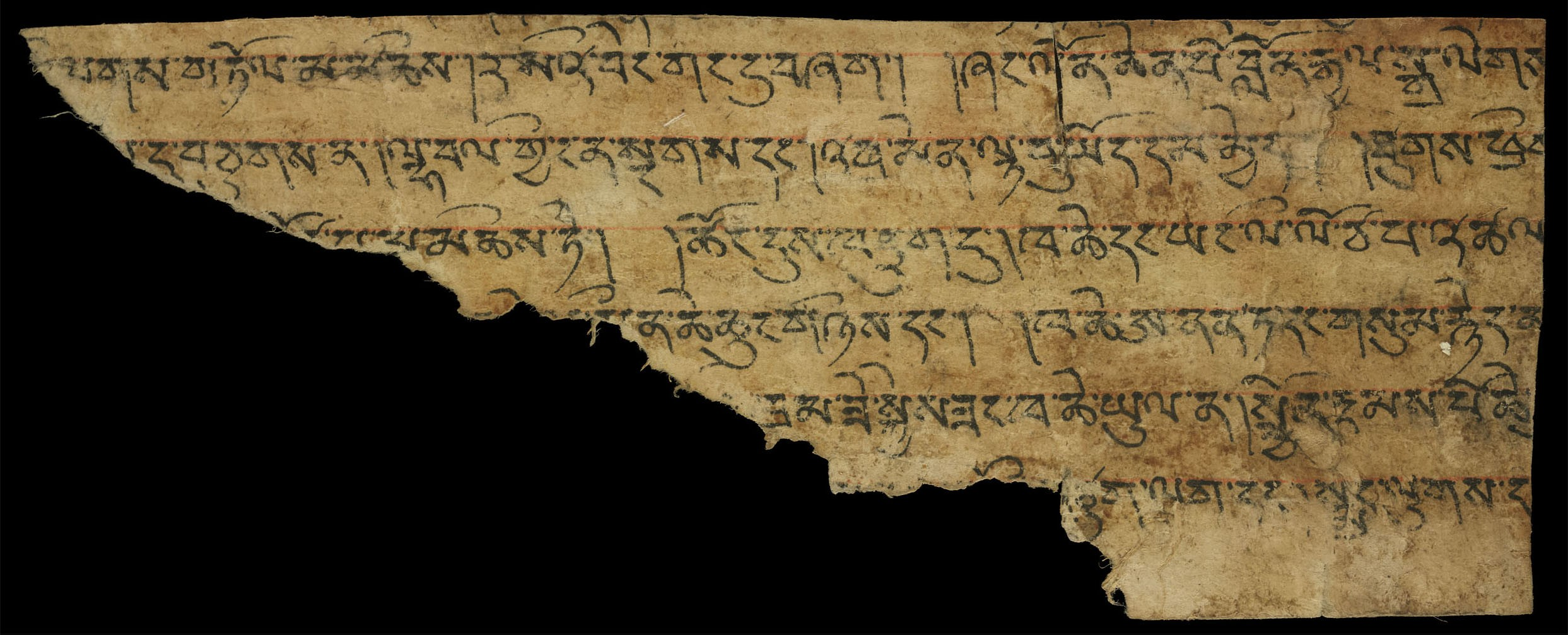 British Library Or.8210/S.9498A, the earliest known fragment of the Testament of Ba', an historical narrative about the establishment of Buddhism in Tibet during the reign of the king Khri srong lde btsan (c. 754-797), as recorded by Dba' Gsal snang (Ba).